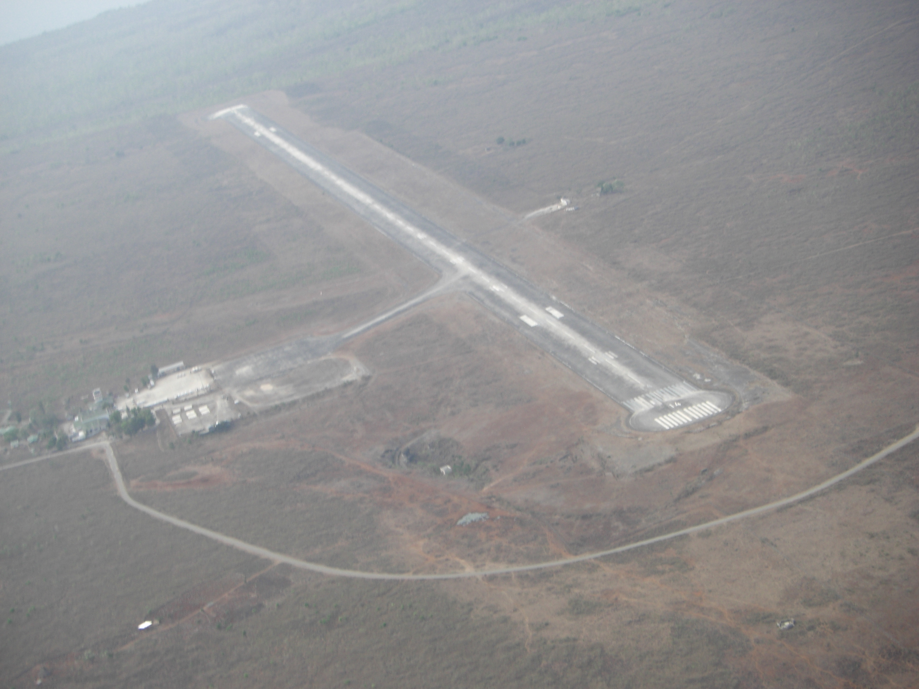 Overhead Baucau Airfield, East TImor, October 2009